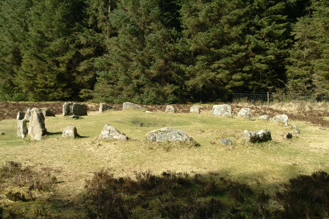 Sussons Common Stone Circle. 22 stones surround the remains of cairn.